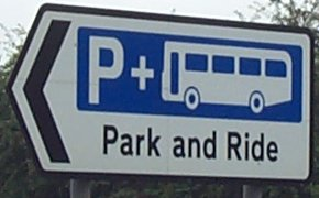 Park and ride sign in Pear Tree, Oxford. 2005-09-10.